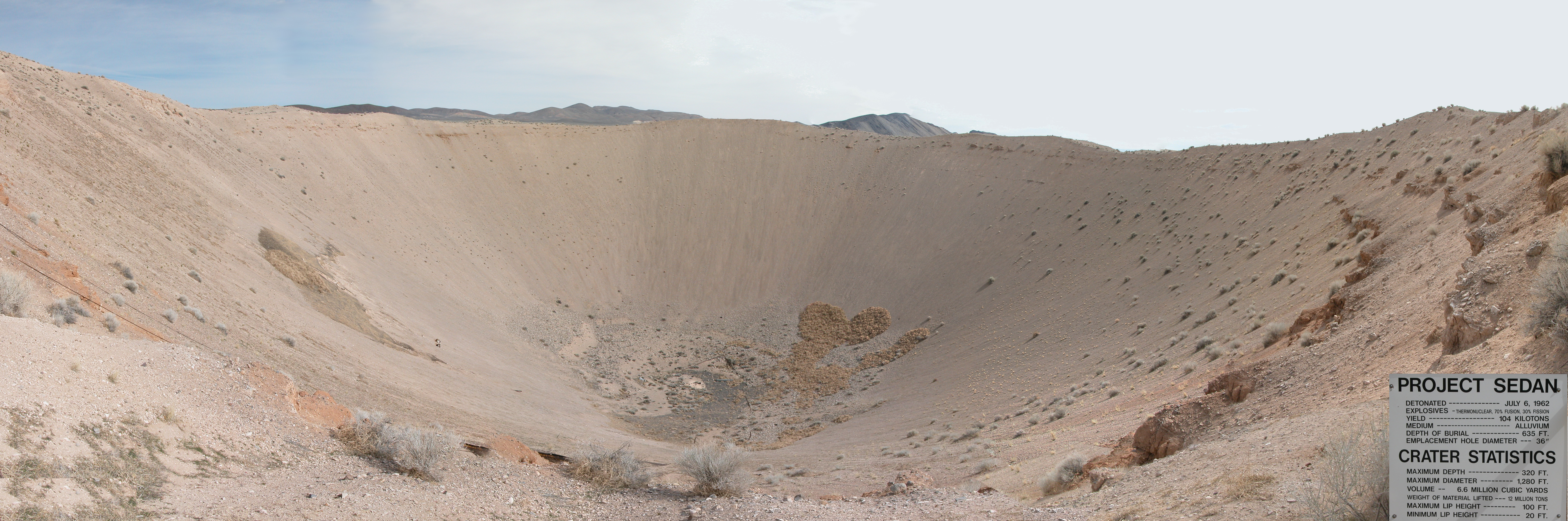 Sedan Crater at Nevada Test Site with the information sign about the project. The image was created from a dozen smaller images and stitched together using Hugin software.